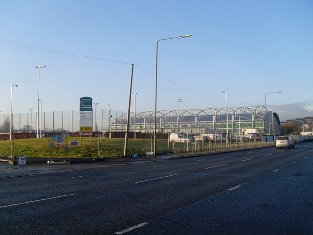 New sports facility in Toryglen. Indoor sports centre being constructed to boost sport in the city ahead of the 2014 Commonwealth Games. Located in close proximity to Hampden Park, Scotland's national stadium.